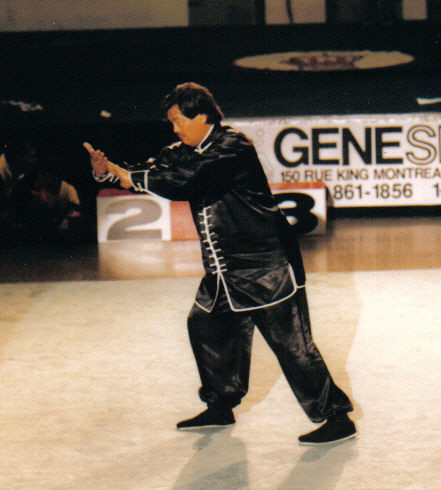 Sifu Eddie Wu demonstrating at a tournament